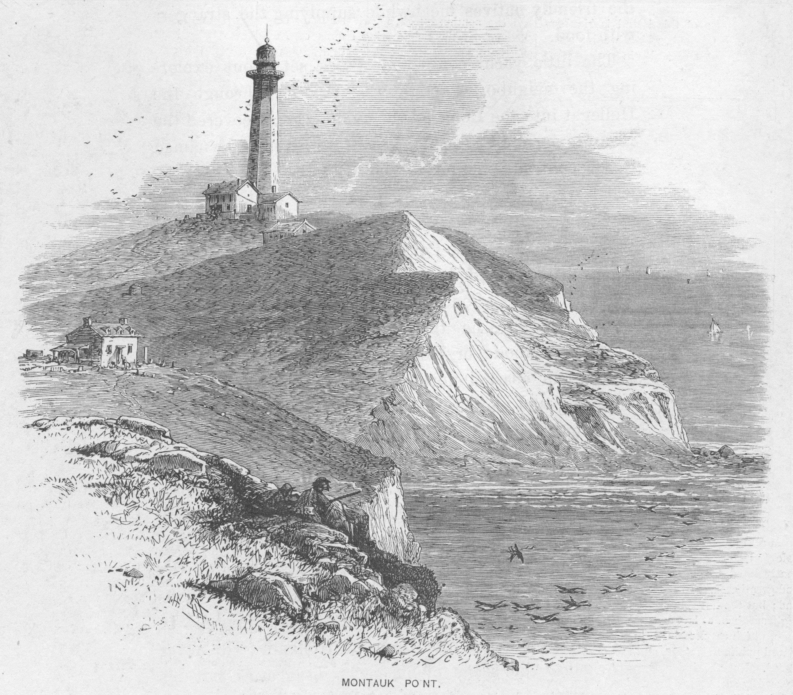 Includes photomechanical reproductions. Title from Calendar of Emmet Collection. EM10388